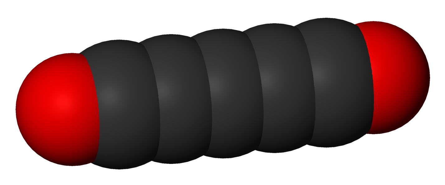 Space-filling model of the pentacarbon dioxide molecule.